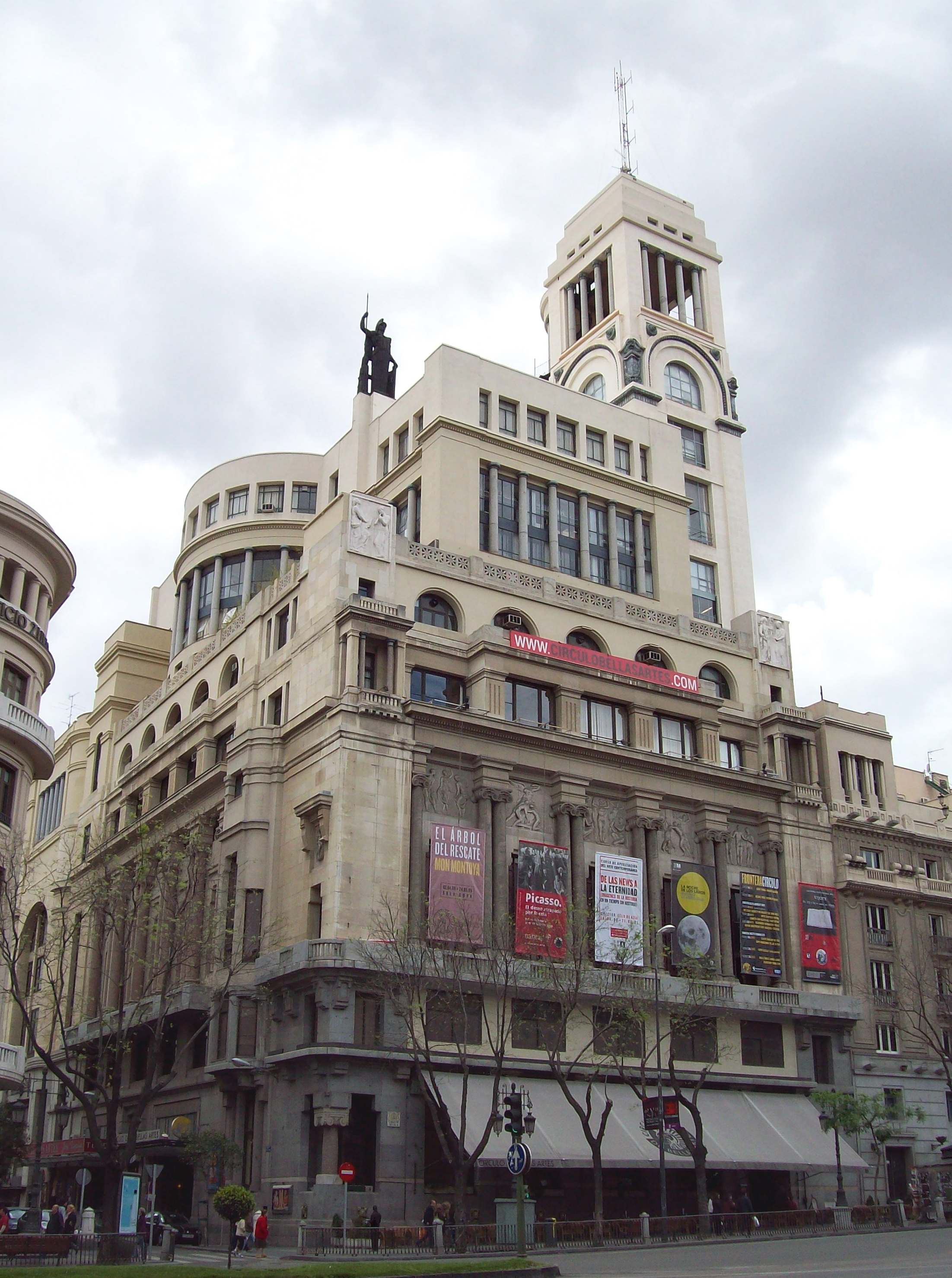 Façade of Círculo de Bellas Artes in Madrid (Spain).